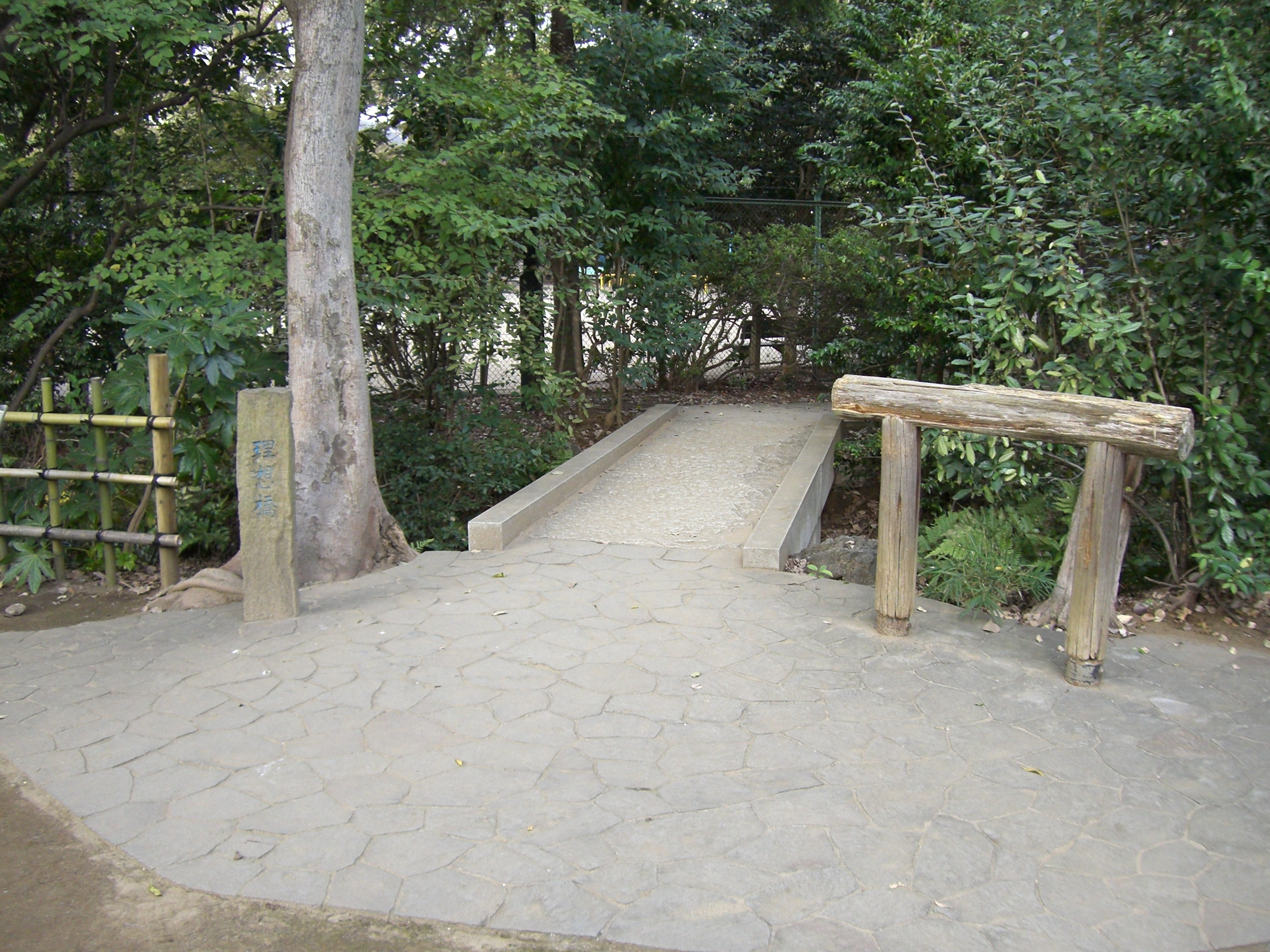 Tetsugakudoukouen Risoukyou at : 2005-10-24 Tetsugakudoukouen by : Suisui